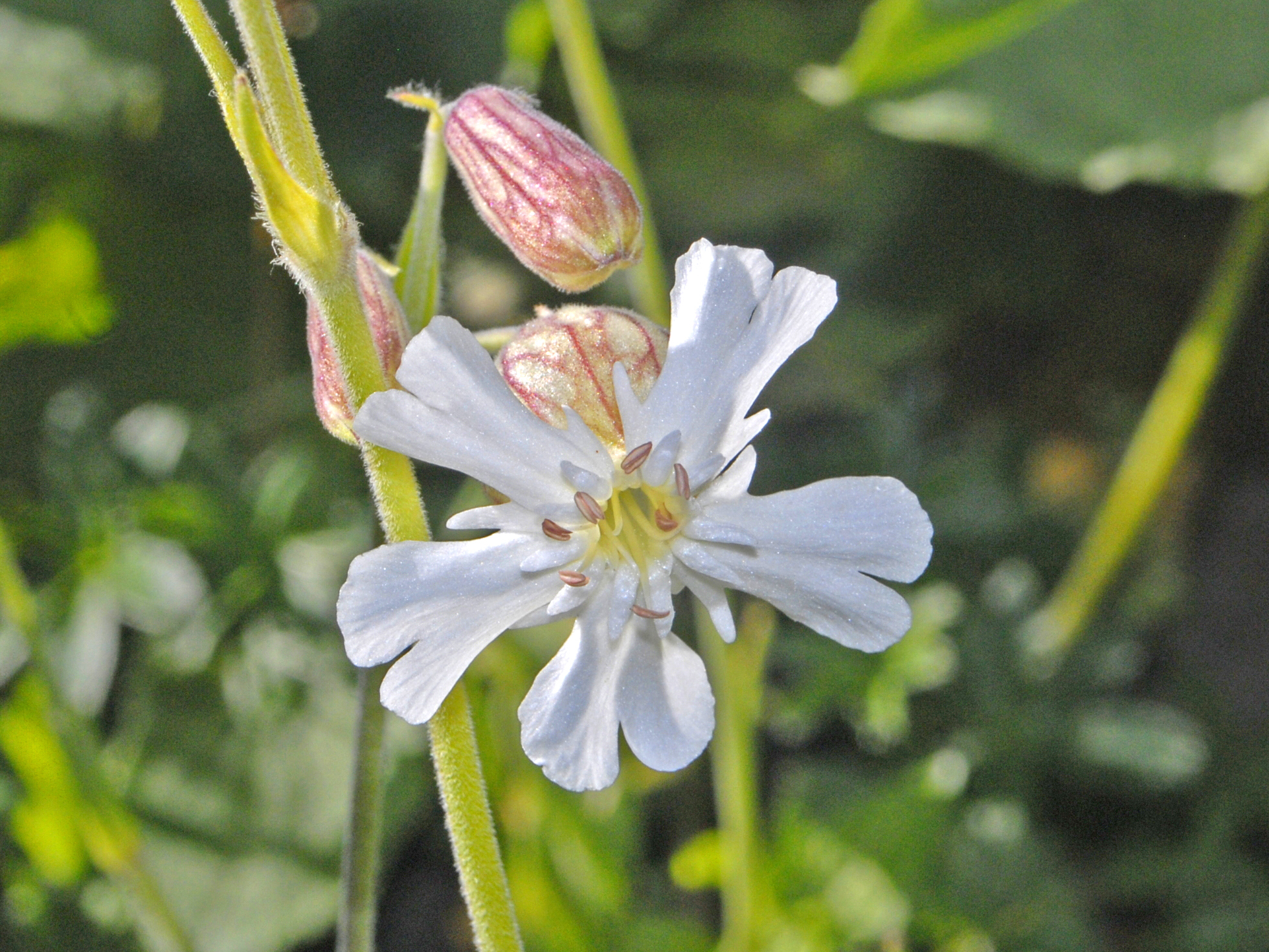 Flower of Silene caucasica at the Giardino Botanico Alpino Chanousia